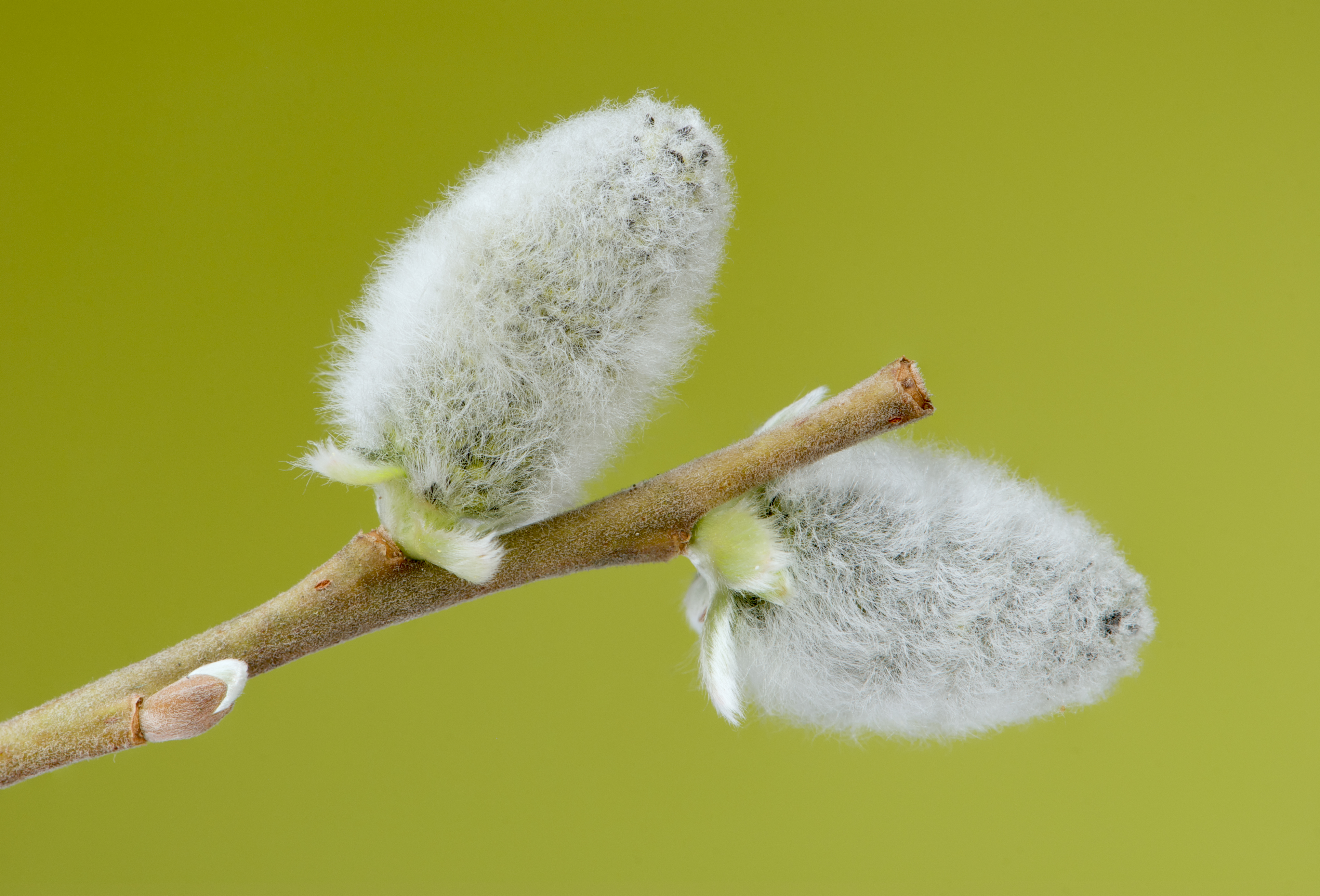 Two flowering male catkins from a goat willow tree (Salix caprea). Since the stamens have not fully evolved yet, the staminates are still in a late stage of their development. Average Length: 18 mm. Maximum diameter: 10 mm.